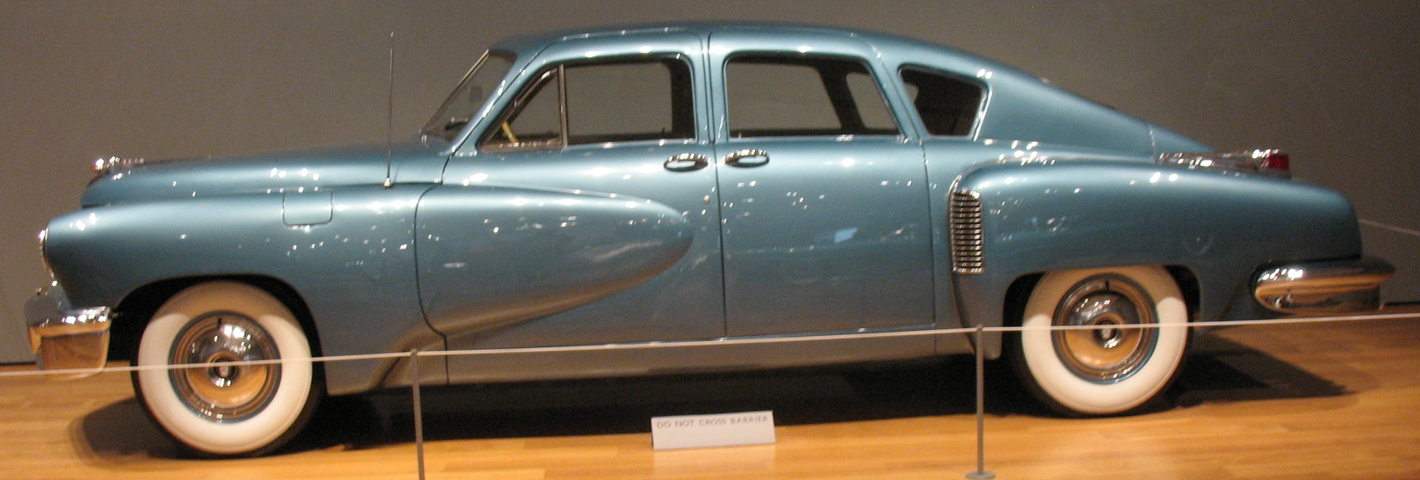 1948 Tucker Model 48 Torpedo. One of ten promotional Tuckers, this Torpedo is one of the most original Tuckers in existence.